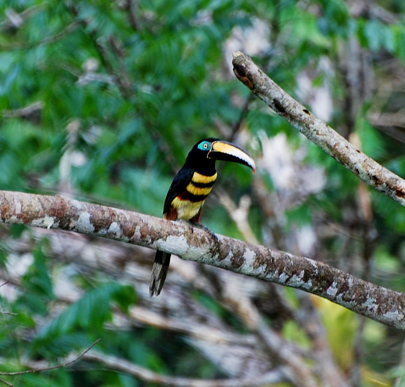 Ramphastidae: Pteroglossus pluricinctus Found in Yasuni National Park, Ecuador